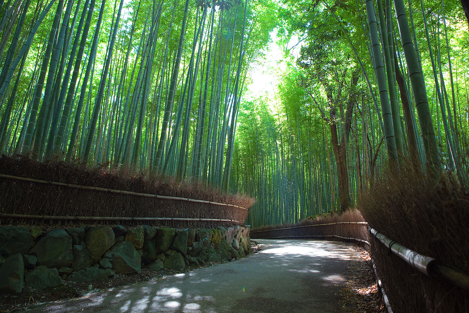 Native bamboo forest, in Arashiyama, Japan. "Now that's bamboo" 24mm f/7.1 1.3sec @ ISO 100